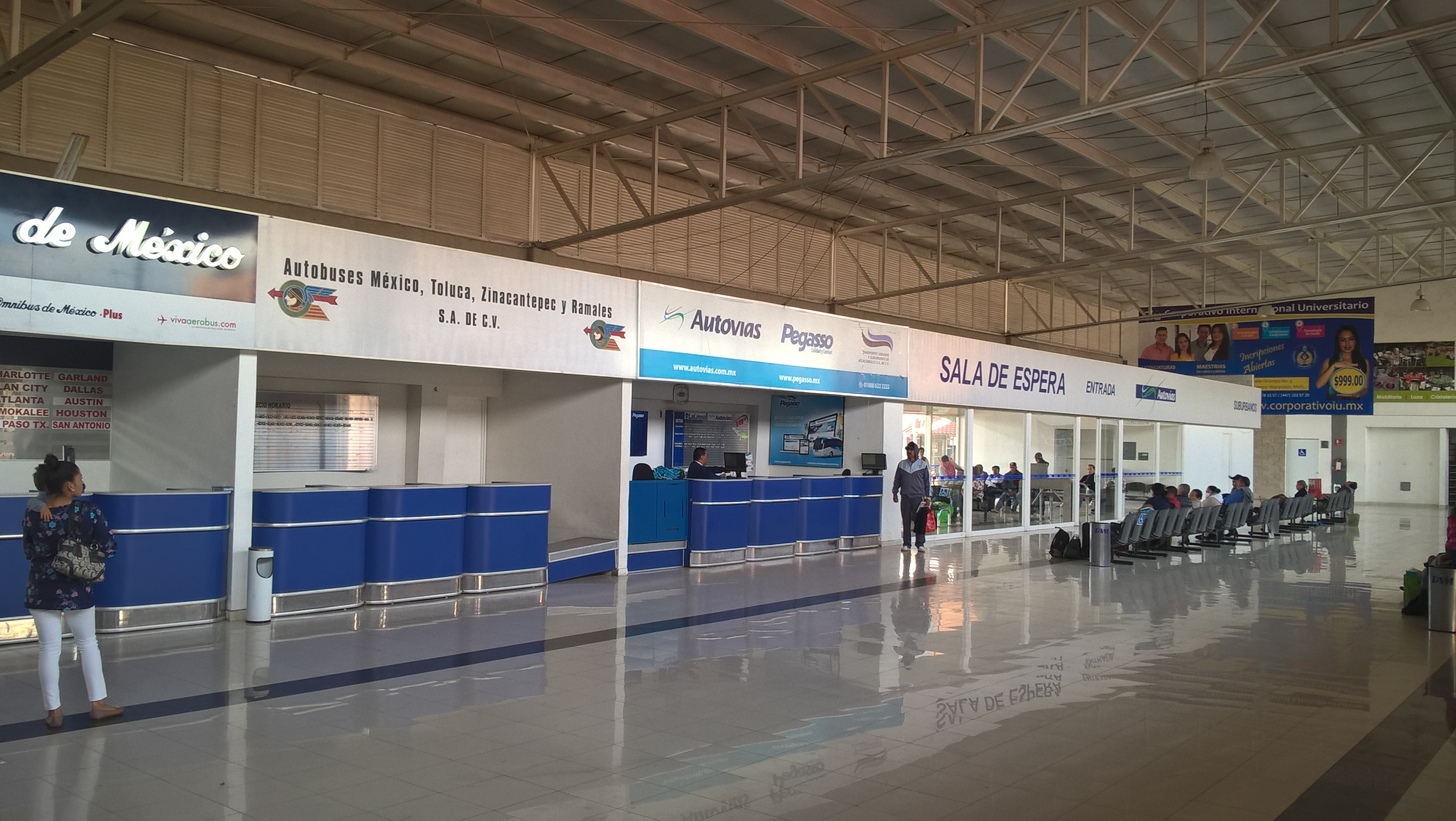 Interior of coach station, Maravatio, Michoacan